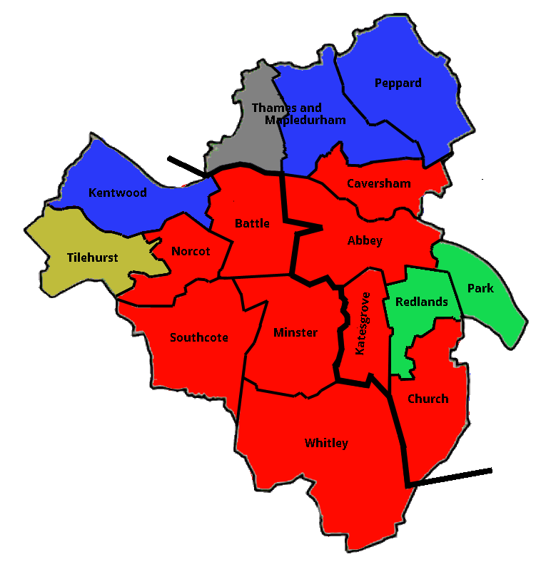 RBC Council Composition 2019.gif